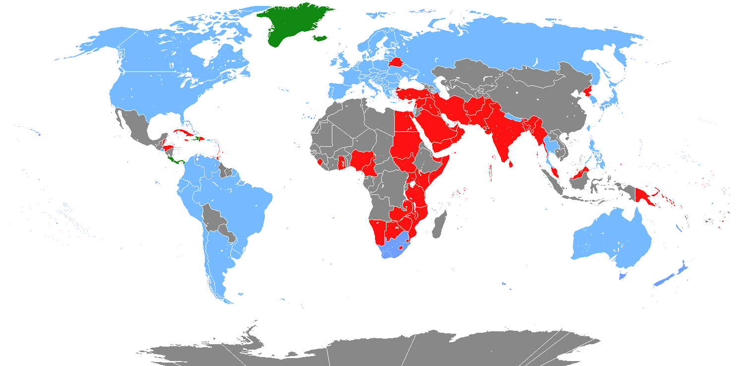 New updated version Light blue - Homosexuals and bisexuals allowed to serve in the military Red - Homosexuals and bisexuals banned from serving Grey - Data not available Green - Countries with no standing military